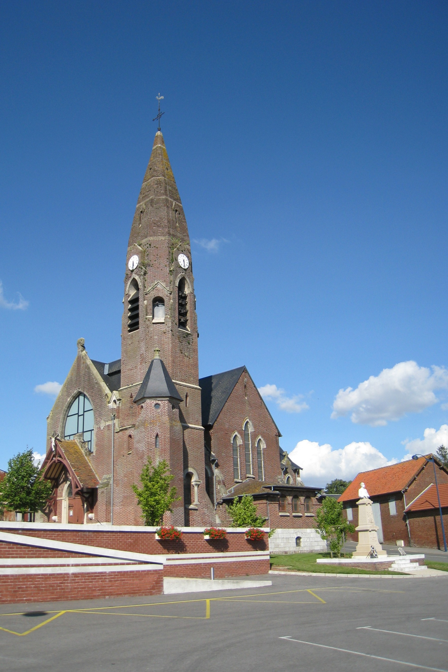 Church of Bouzincourt - August 2008.